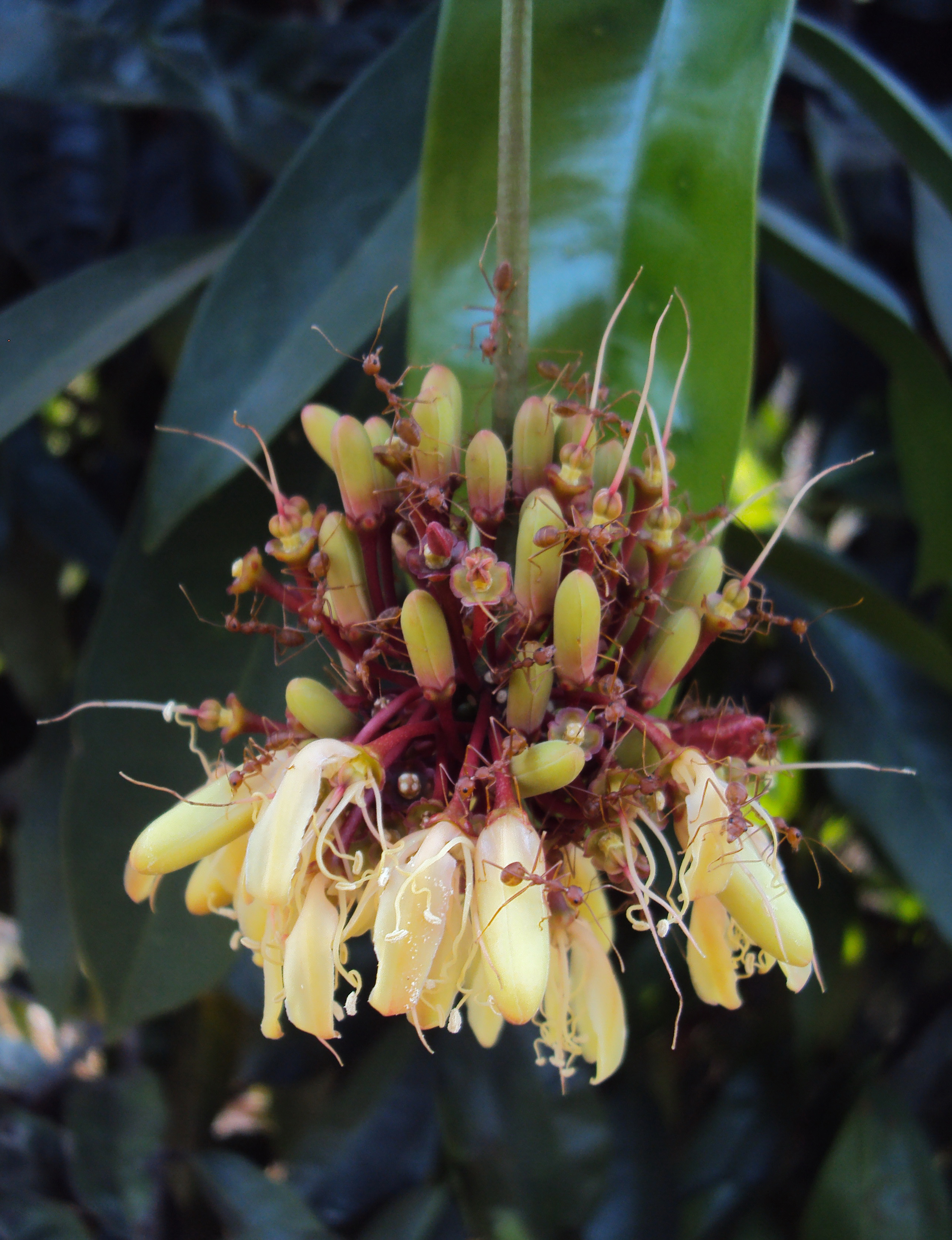 Quassia indica